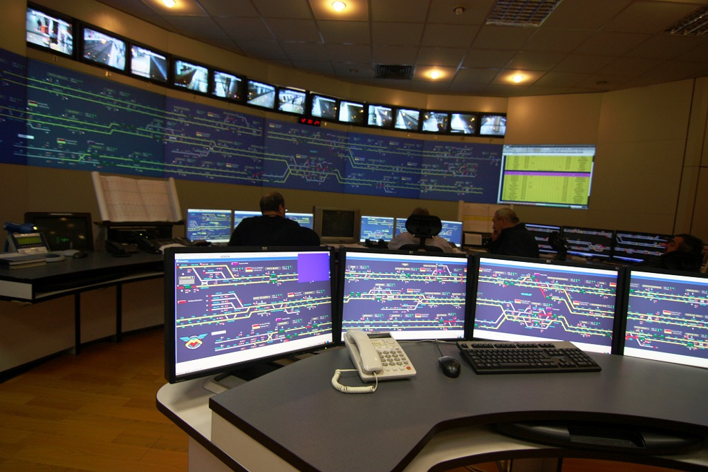 Bucharest subway central dispatch